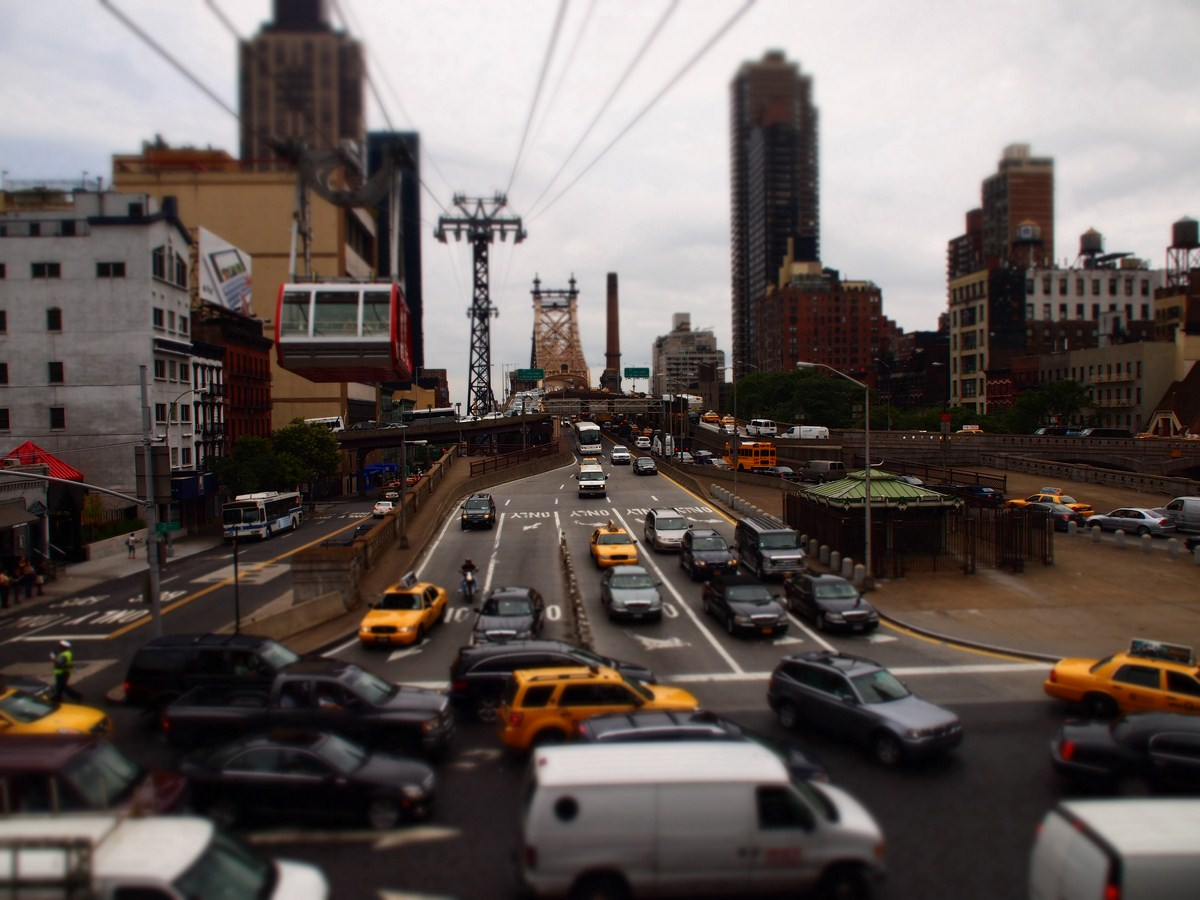 Queensboro Bridge